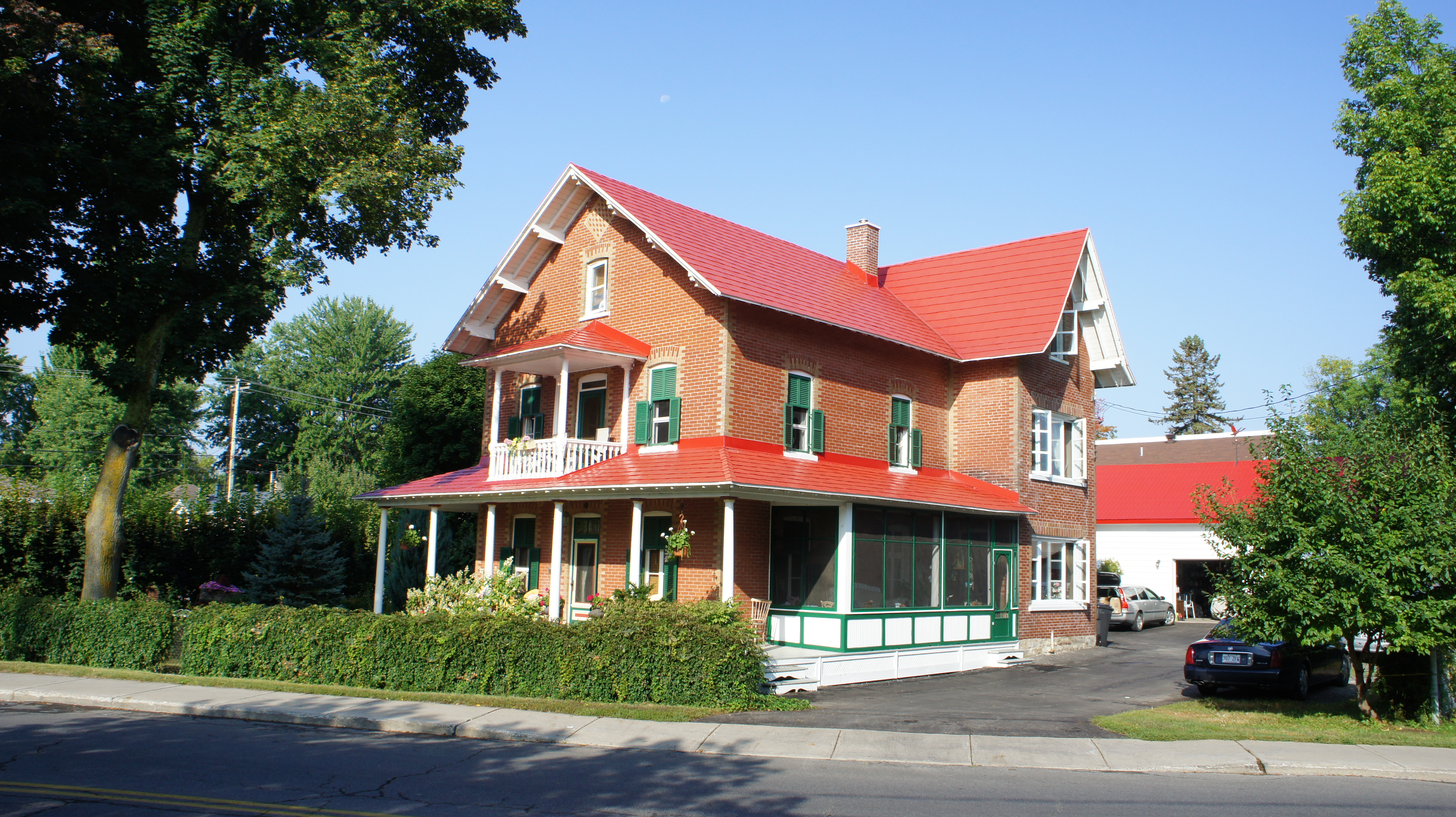 The Maison-Bélair Site of the heritage is a residential set including a rural house built by 1915 and a dependence. The house is a representative example of the bourgeois residences built during the first half of the XXth century in rural areas.